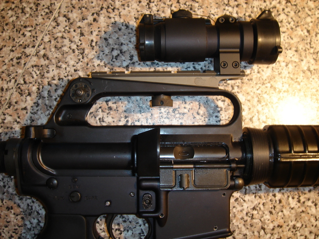 Colt SMG 635, 9mm NATO, ML 2 sight, Colt mount